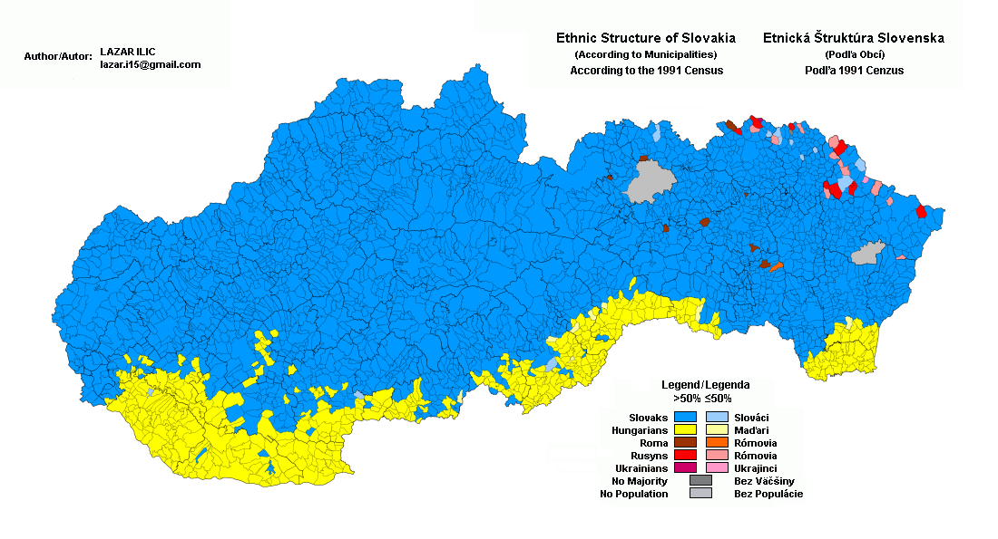 This is an ethnic map of Slovakia according to the 1991 population census.